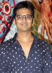 Amit Trivedi at QUEEN success party